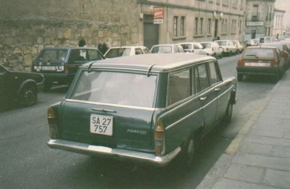 Seat 1500 in Salamanca, Spain, 8 November 1995. This photograph is entirely my own work.